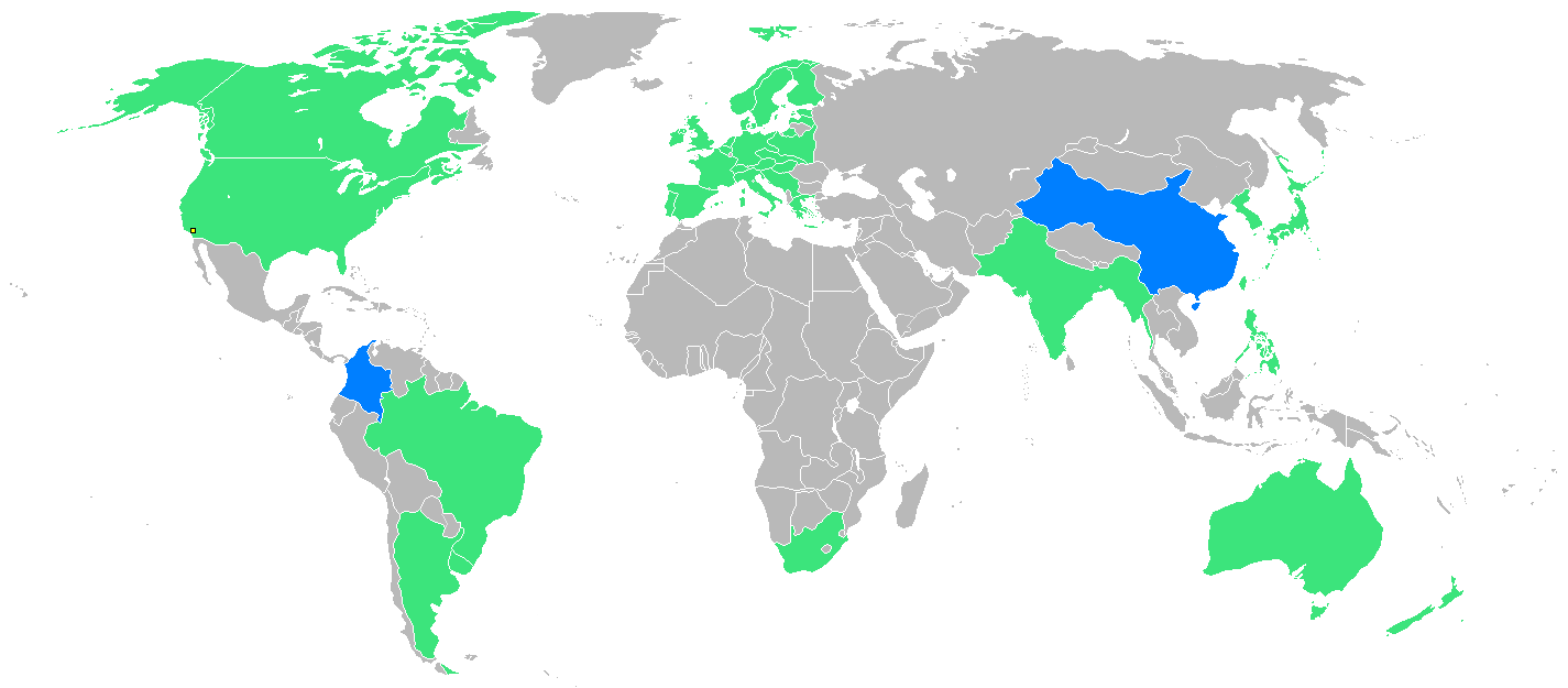 Countries which participated in the 1932 Summer Olympics, derived from blank world map. Blue = Participating for the first time Green = Have previously participated. Yellow square is host city (Los Angeles).